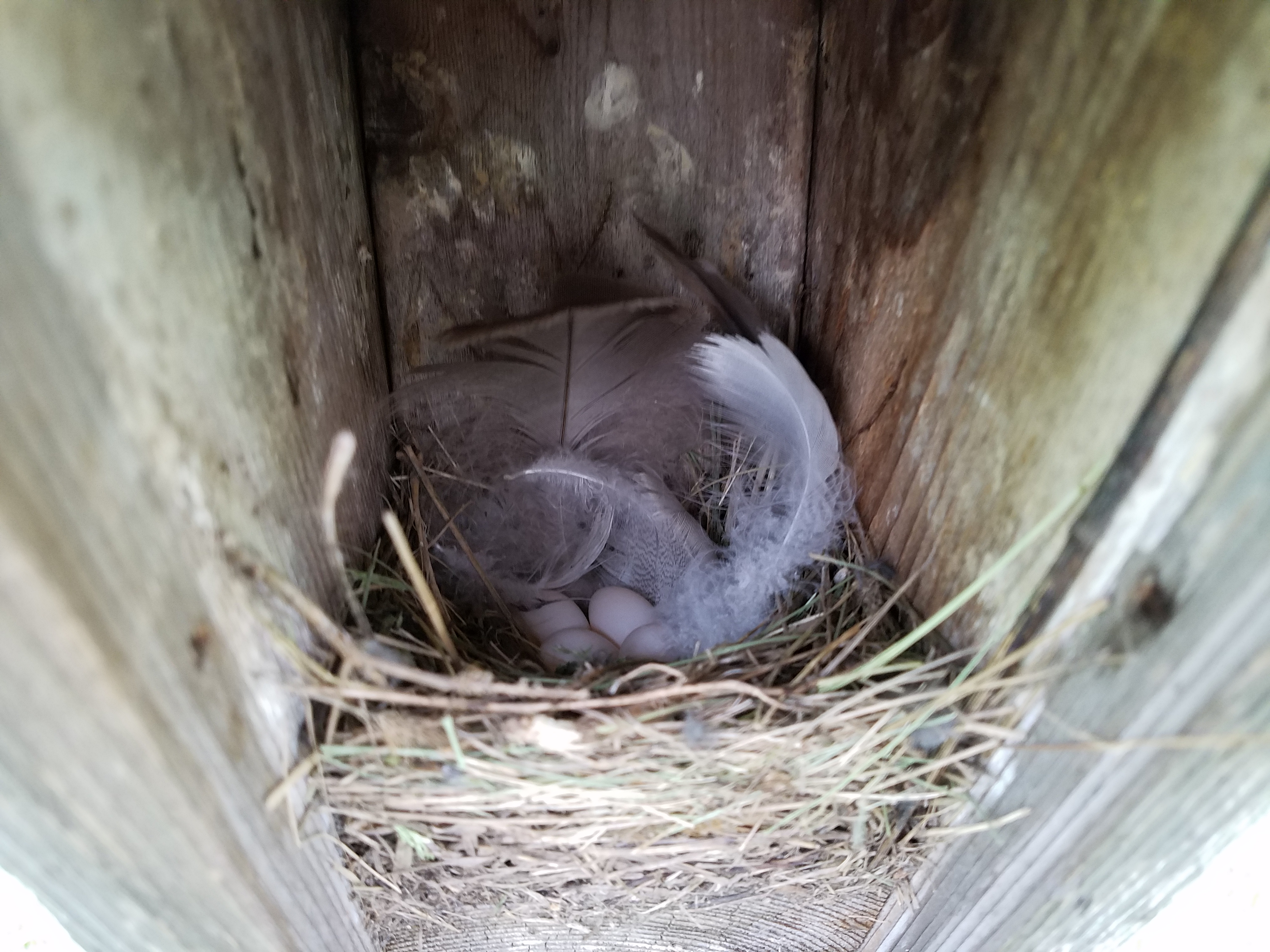 A clutch of four eggs lain by a Tree Swallow.